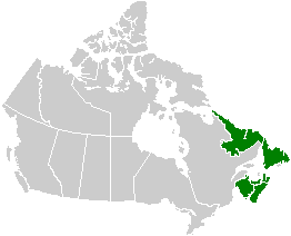 Map of the Atlantic provinces. See Image:Canada provinces blank vide.png for additional information.